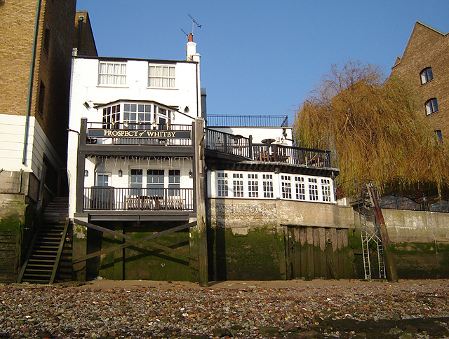 The Prospect of Whitby, Wapping, Tower Hamlets, London. 6 January 2006. Photographer: Fin Fahey